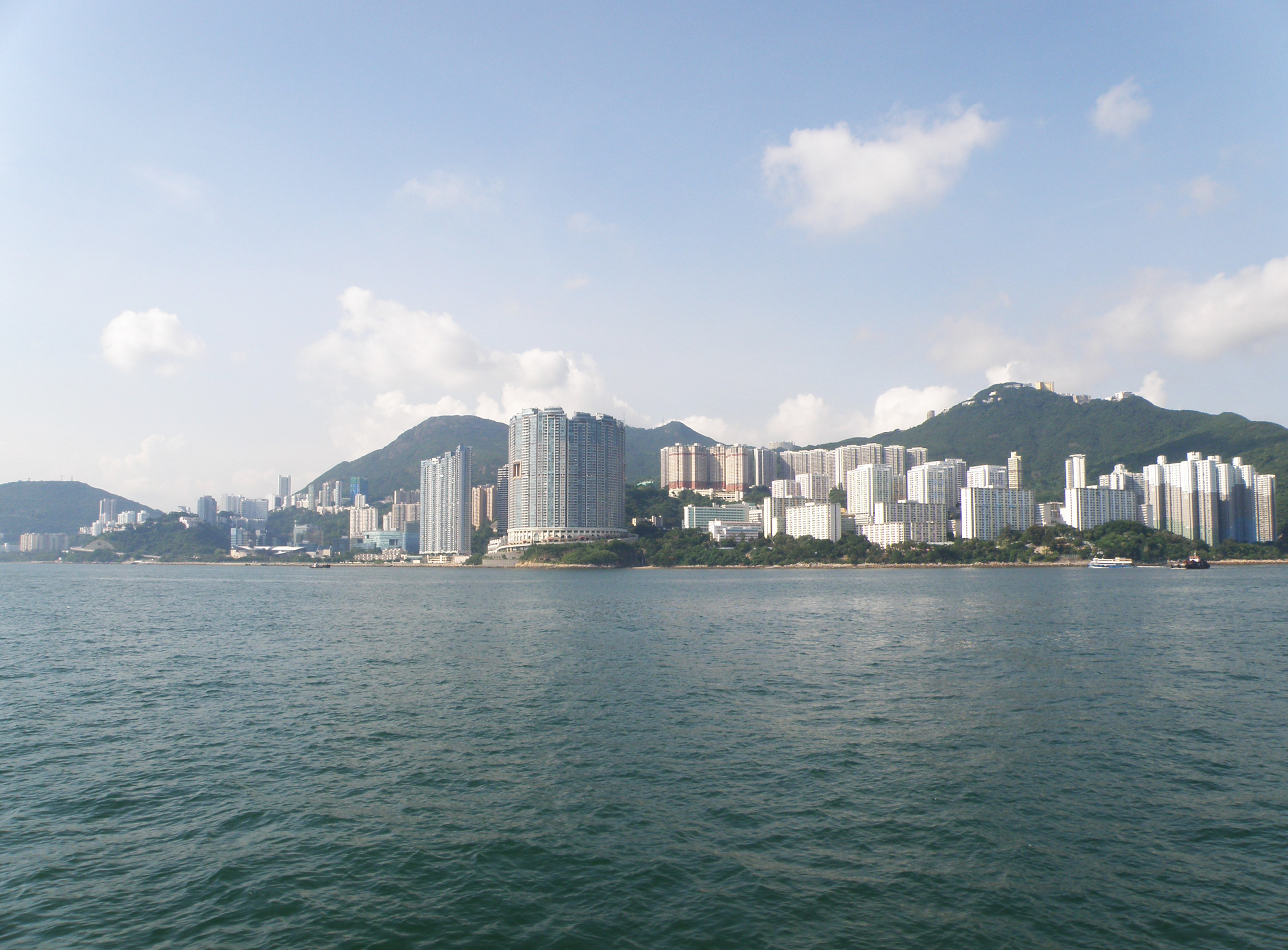 Pok Fu Lam in Southern District, Hong Kong.